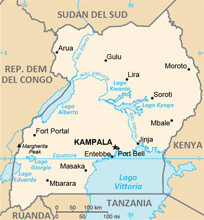 Uganda map from CIA World Factbook, converted from original GIF format (July 2011 version showing South Sudan) in italian.